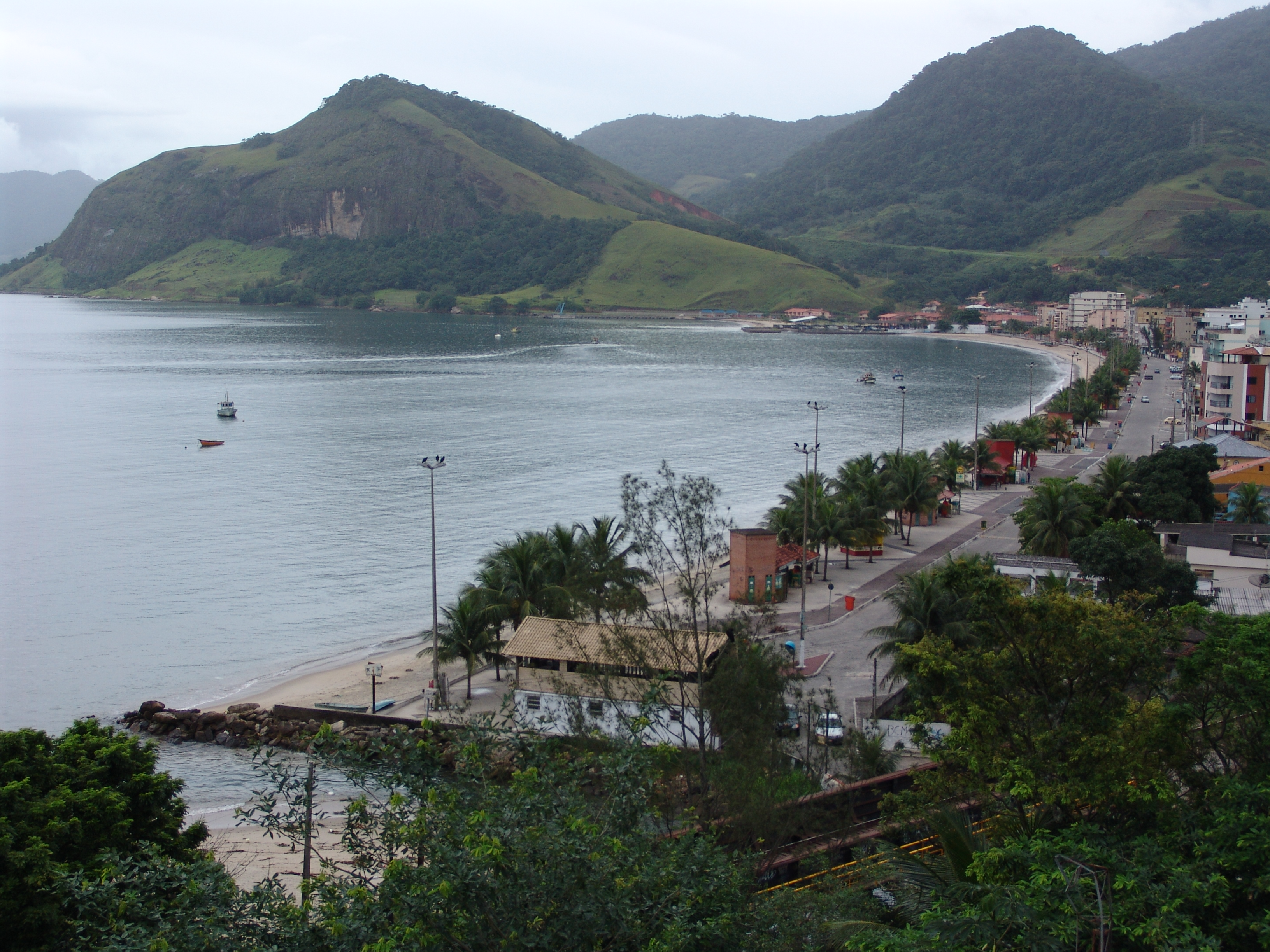 VISTA MURIQUI J. ALVES BAHIA